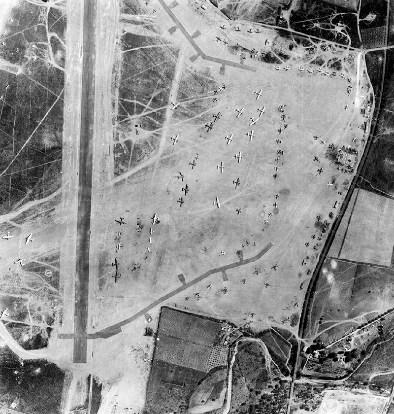 Vertical airphoto of Borgo Airfield - Corsica - 15 Aug 1944